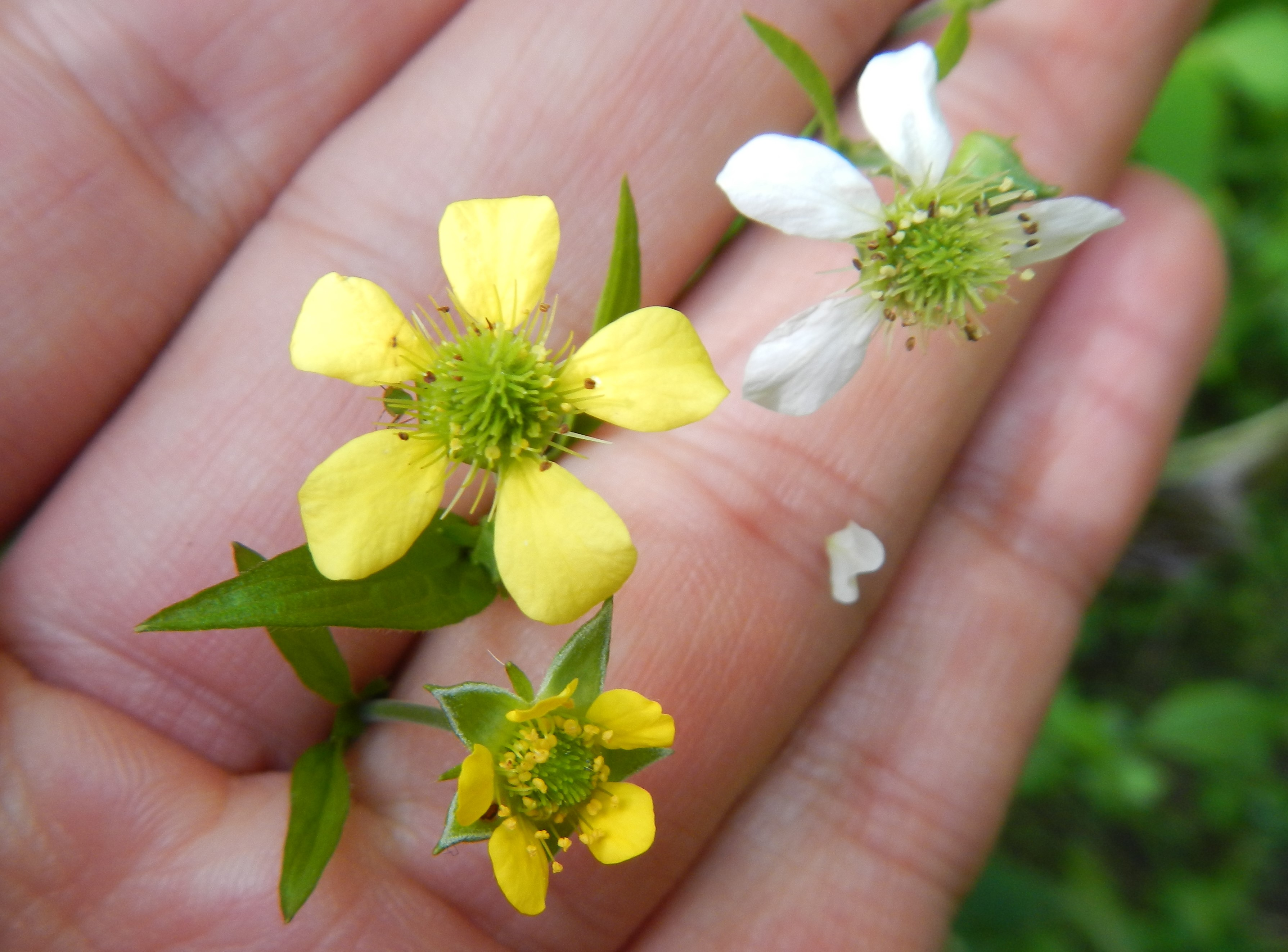 Geum ×catlingii (centre), with parents, Halton Regional Municipality, Ontario